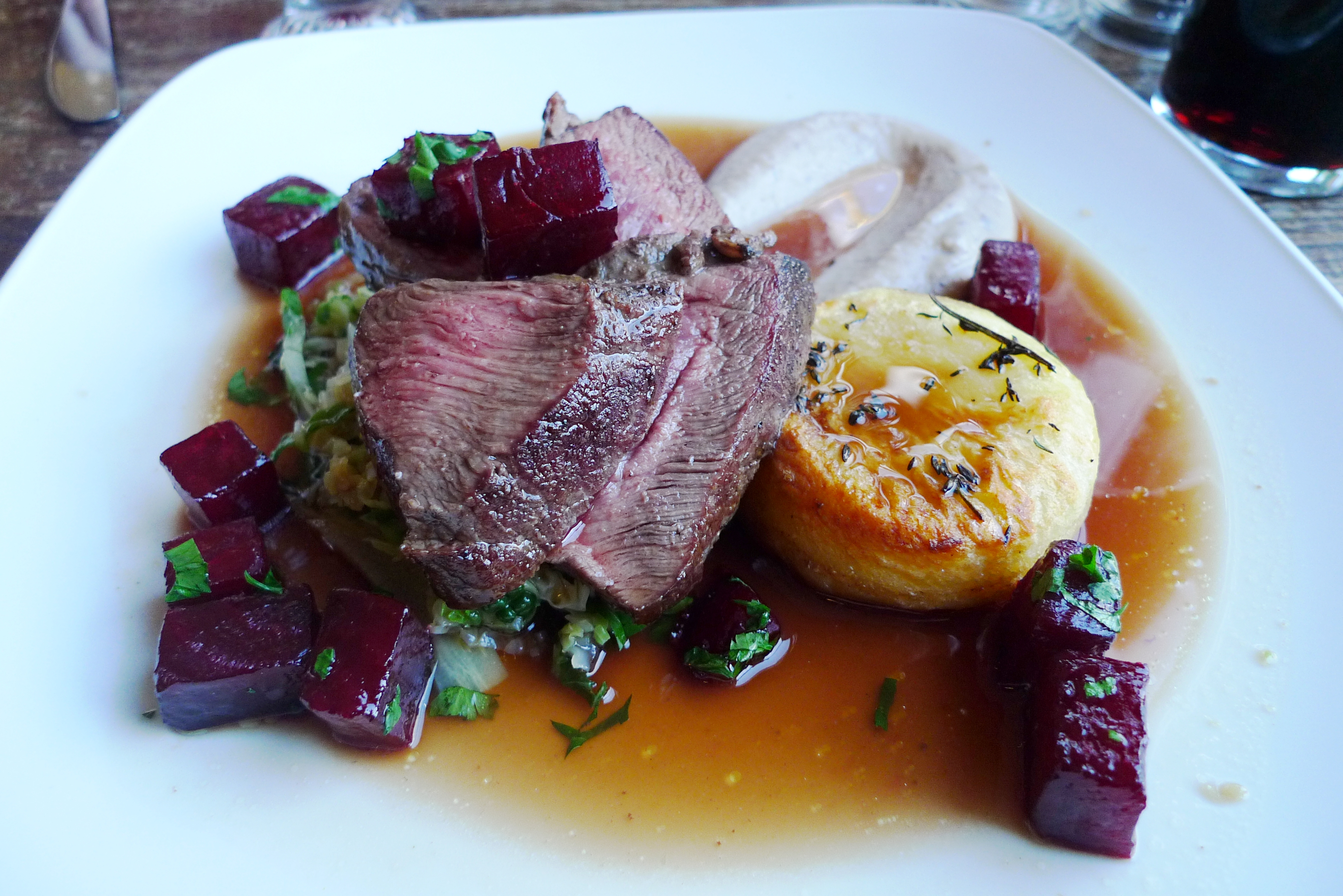 The venison haunch, really nicely cooked. I enjoyed this. At The Crown, Cloudesley Road.